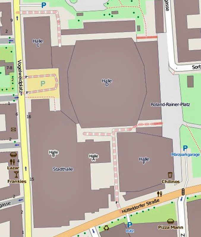 This map may be incomplete, and may contain errors. Don't rely solely on it for navigation.